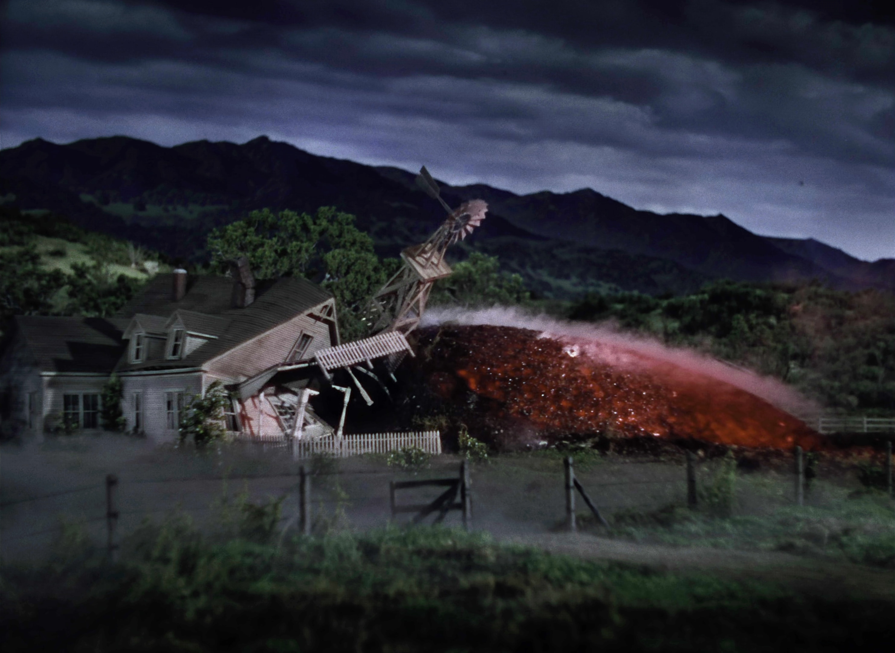 The War of the Worlds - trailer (cropped screenshot)